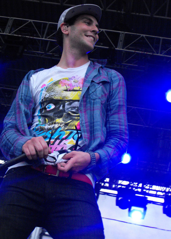 This is a photo of Cobra Starship singer Gabe Saporta.